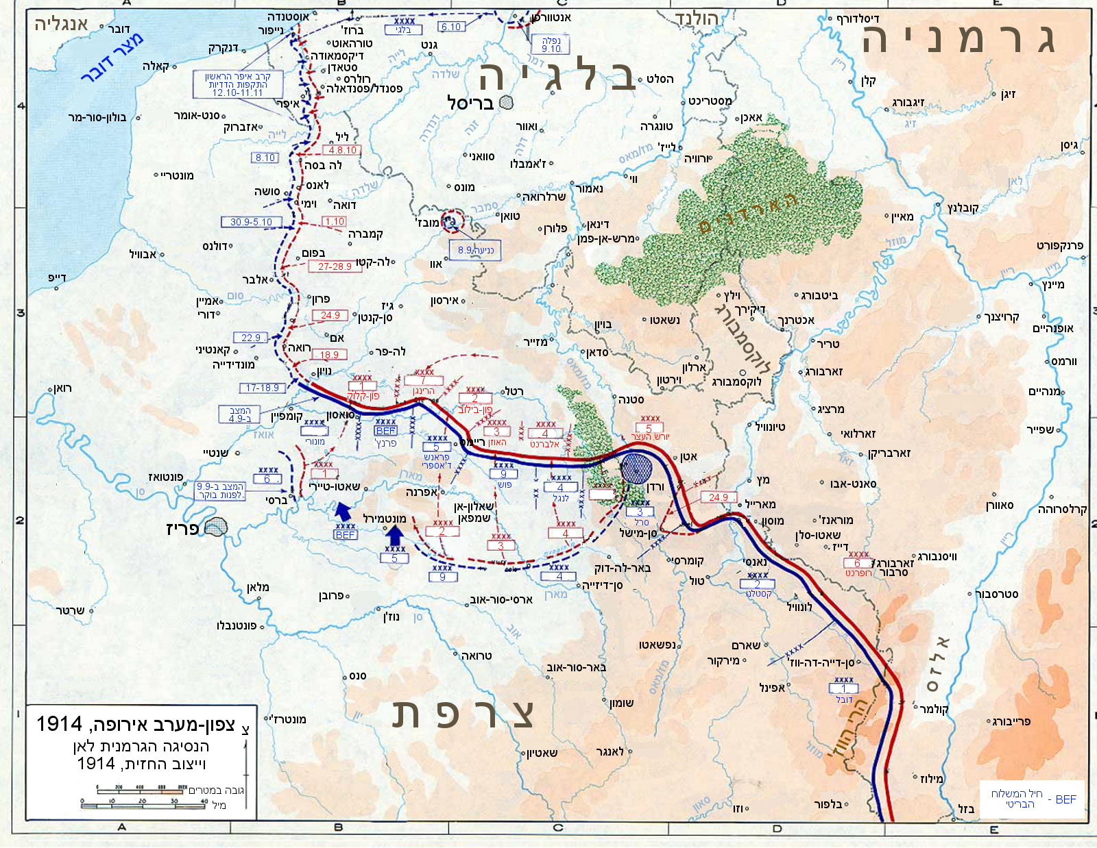 Based onFile:Western front 1914.jpg